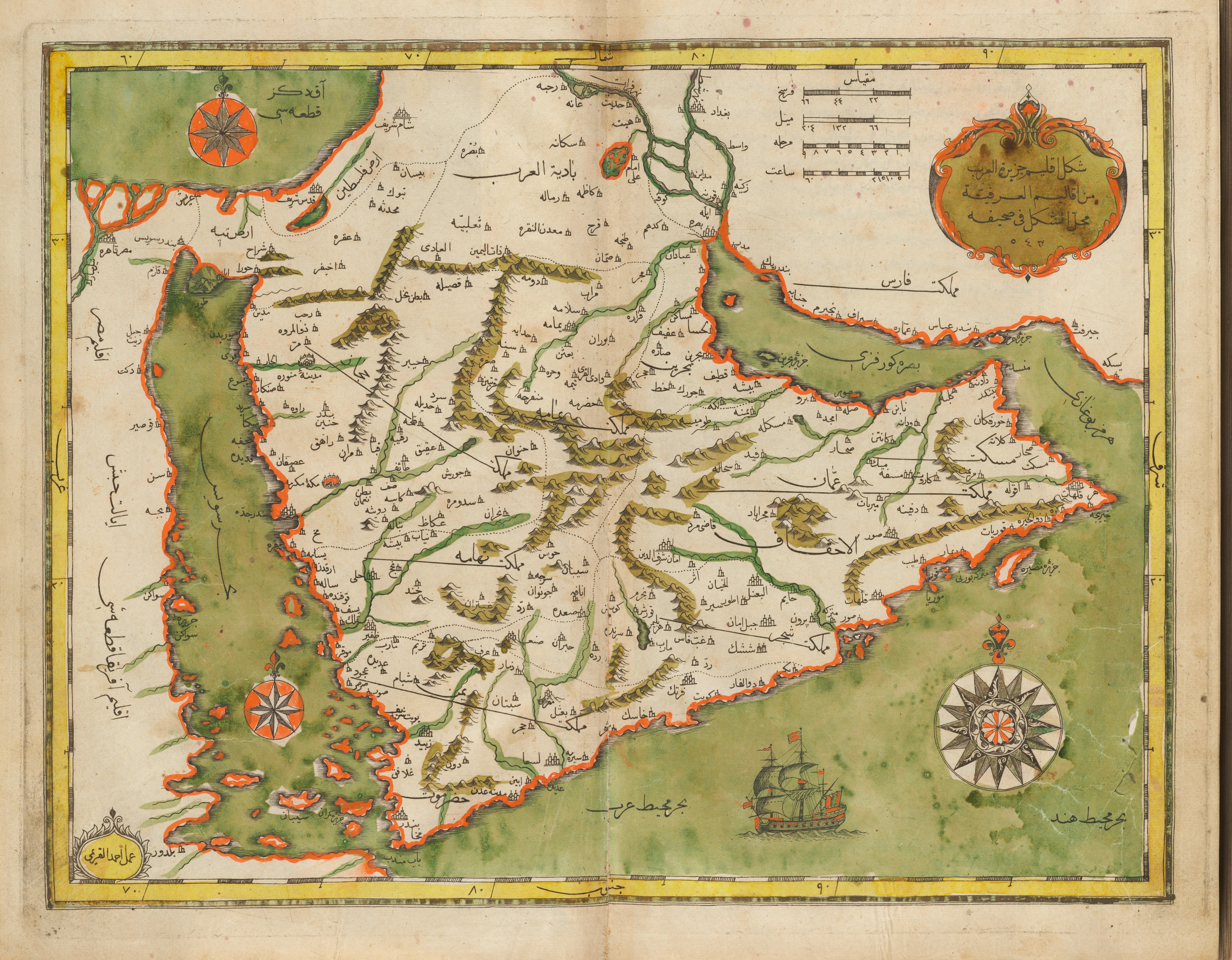 1732 map from Kitab-ı cihannüma [Constantinople], 1732, by Kâtip Çelebi (1609-1657). In Ottoman Turkish (Arabic script), printed by İbrahim Müteferrika. Typ 794.34.475, Houghton Library, Harvard University